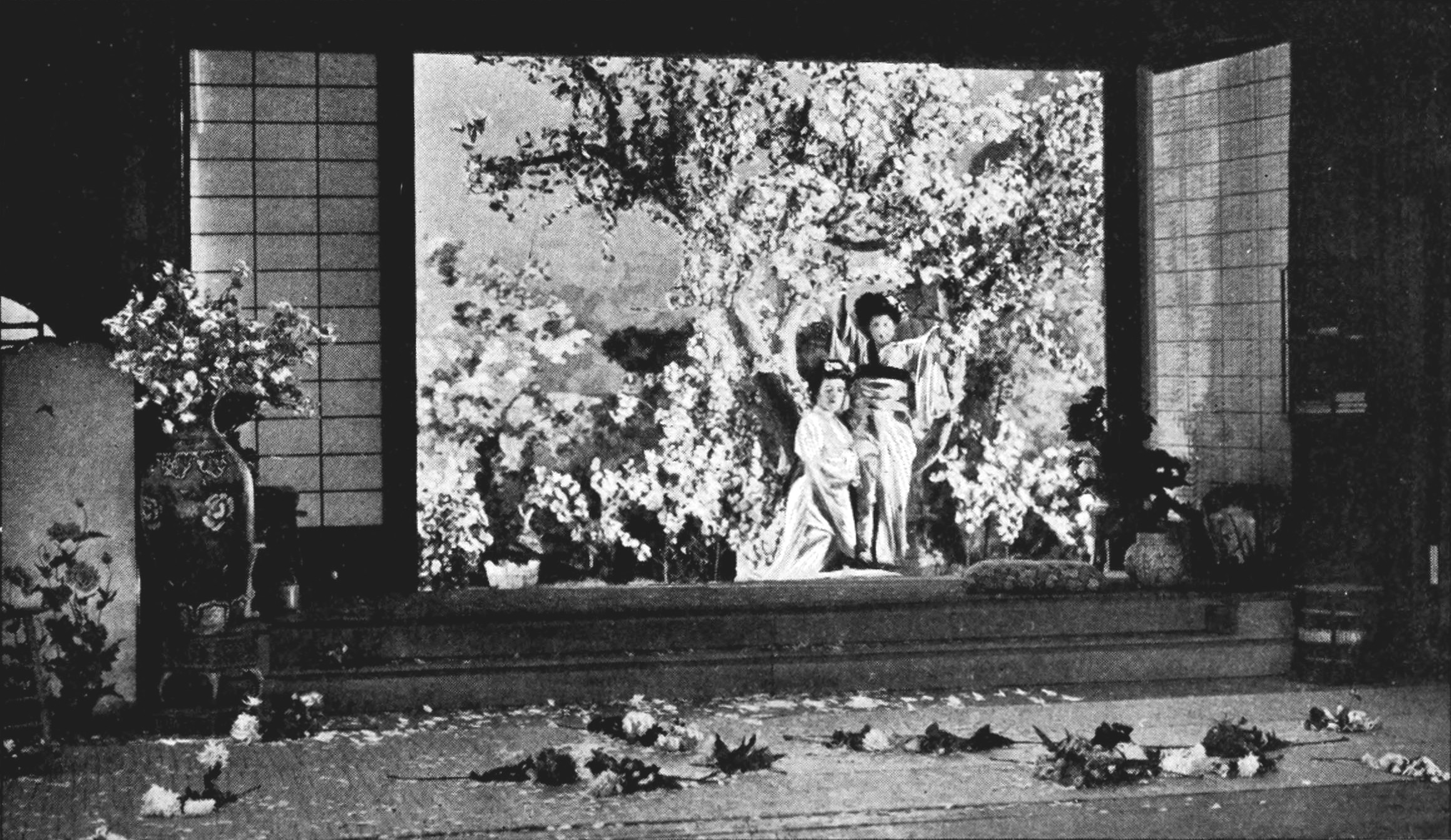 Puccini - Madama Butterfly - Butterfly and Suzuki in the garden Title: The Victrola book of the opera : stories of one hundred and twenty operas with seven-hundred illustrations and descriptions of twelve-hundred Victor opera records Year: 1917 (1910s) Authors: Victor Talking Machine Company Rous, Samuel Holland Subjects: Operas Publisher: Camden, N.J. : Victor Talking Machine Co. Text Appearing Before Image: Finale, Act I (Madame Butterfly Selection, No. 1 By Pryors Band\ Bartered Bride Overture (Smetand) By Pryor s Band fMadame Butterfly Selection, No. 2 By Pryors Band\ Tannhauser Selection (Wagner) By Pryors Band iSur la mer calmee (Some Day Hell Come)By Mile. Heilbronner, Soprano (In French)Daughter of the Regt—Salut a la France Heilbronner. Madame Butterfly Fantasie By Victor Sorlin Cello 35148 35331 35409 31696 12-inch,12-inch, 12-inch,12-inch, Butterflys Song of Faith—Waiting Motive— Entrance of Butterfly fMadame Butterfly Fantasie By Rosario Bourdon, Ce^s\35353\ La Boheme Selection (Puccini) Vessella s Italian Band) O quanti occhi Fisi (Oh ! Kindly Heavens) By Olive Kline, Soprano—Paul Althouse, Tenor (In Italian) 155058Aida—Fuggiam gli ardori (Verdi) Lucy Marsh) f What a Sky, What a Sea (Entrance of Butterfly, Act 1)1;Beloved Idol (Butterflys Death Scene, Act II) f17346 1 By Edith Helena, Soprano (In English)) 1.25 1.25 1.25 1.00 12-inch, 1.25 12-inch, 1.50 10-inch, .75 Text Appearing After Image: BUTTERFLY AND SUZUKI IN THE GARDEN